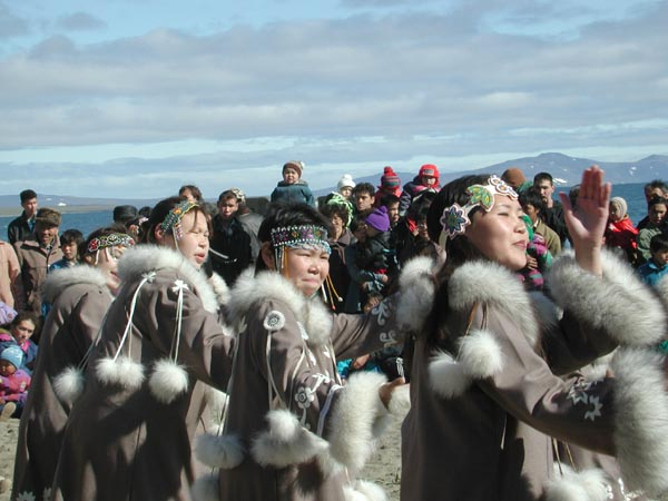 Female dancers in traditional dress, Lorino